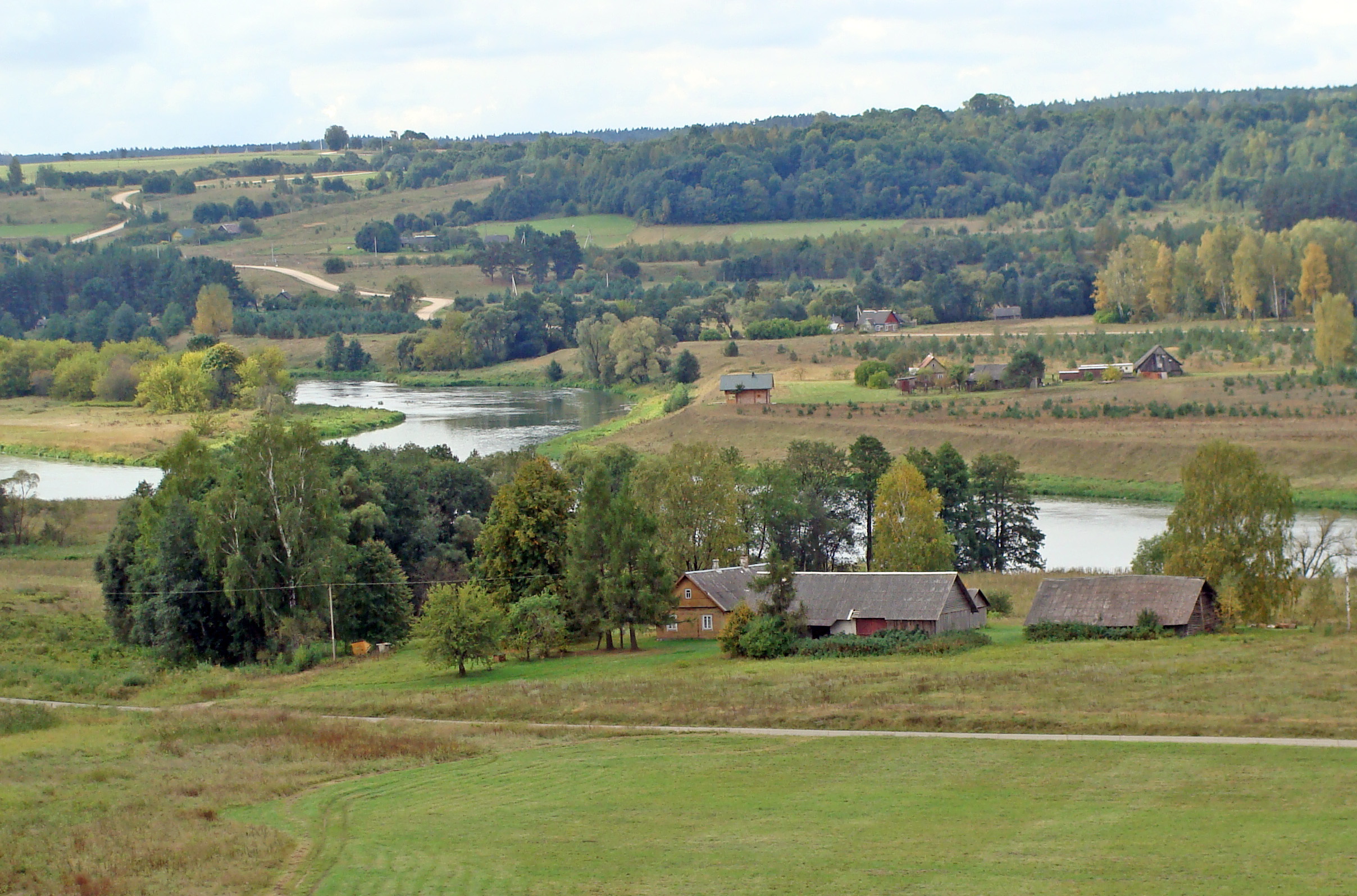 A photo from Felicity's unpublished archives.